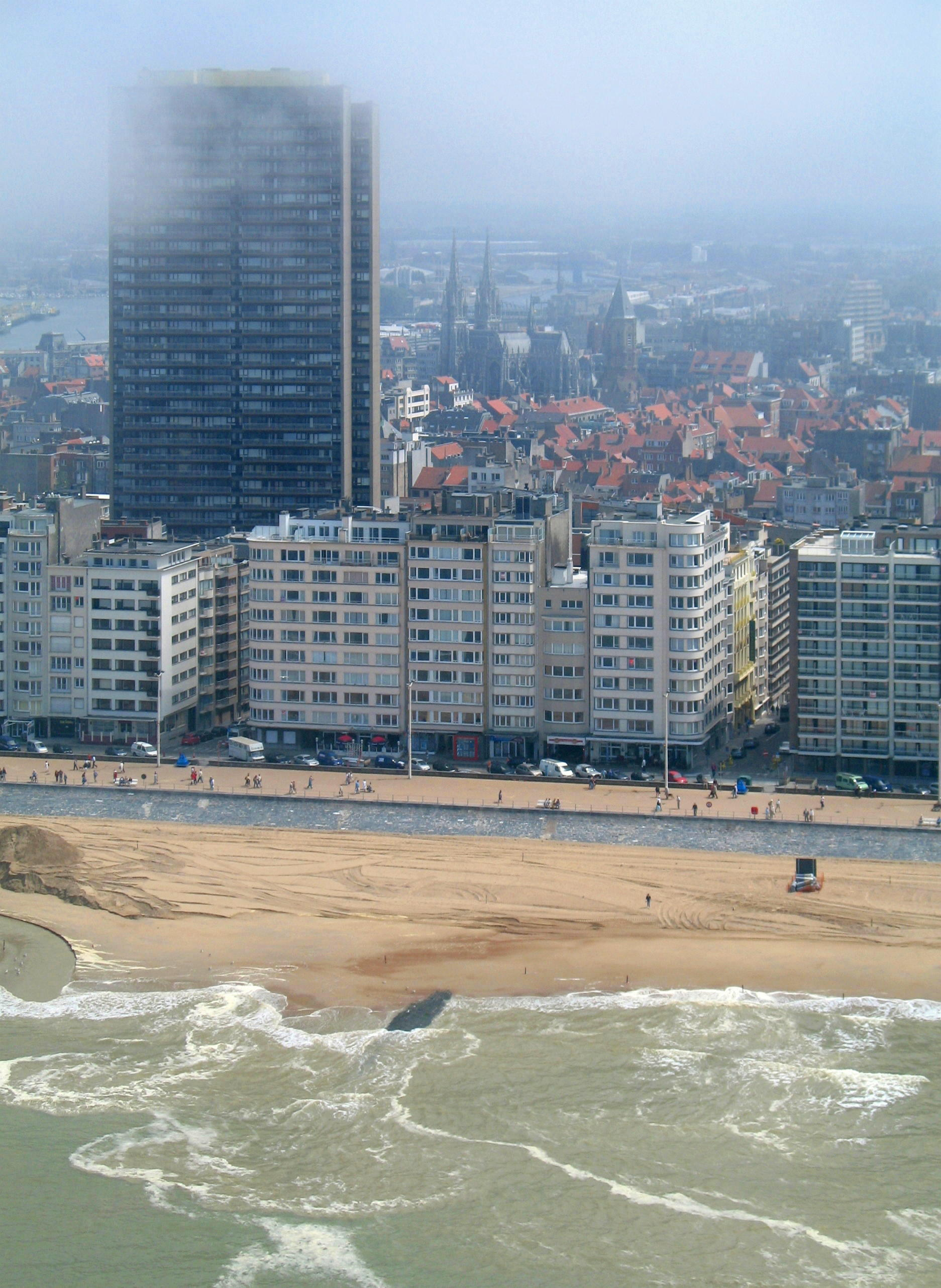 Ostend (Province of West Flanders, Belgium): sea front and Europacentrum building